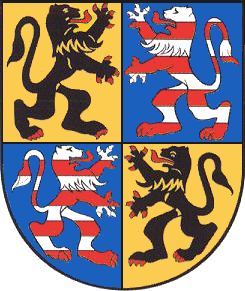 Coat of Arms of Ummerstadt